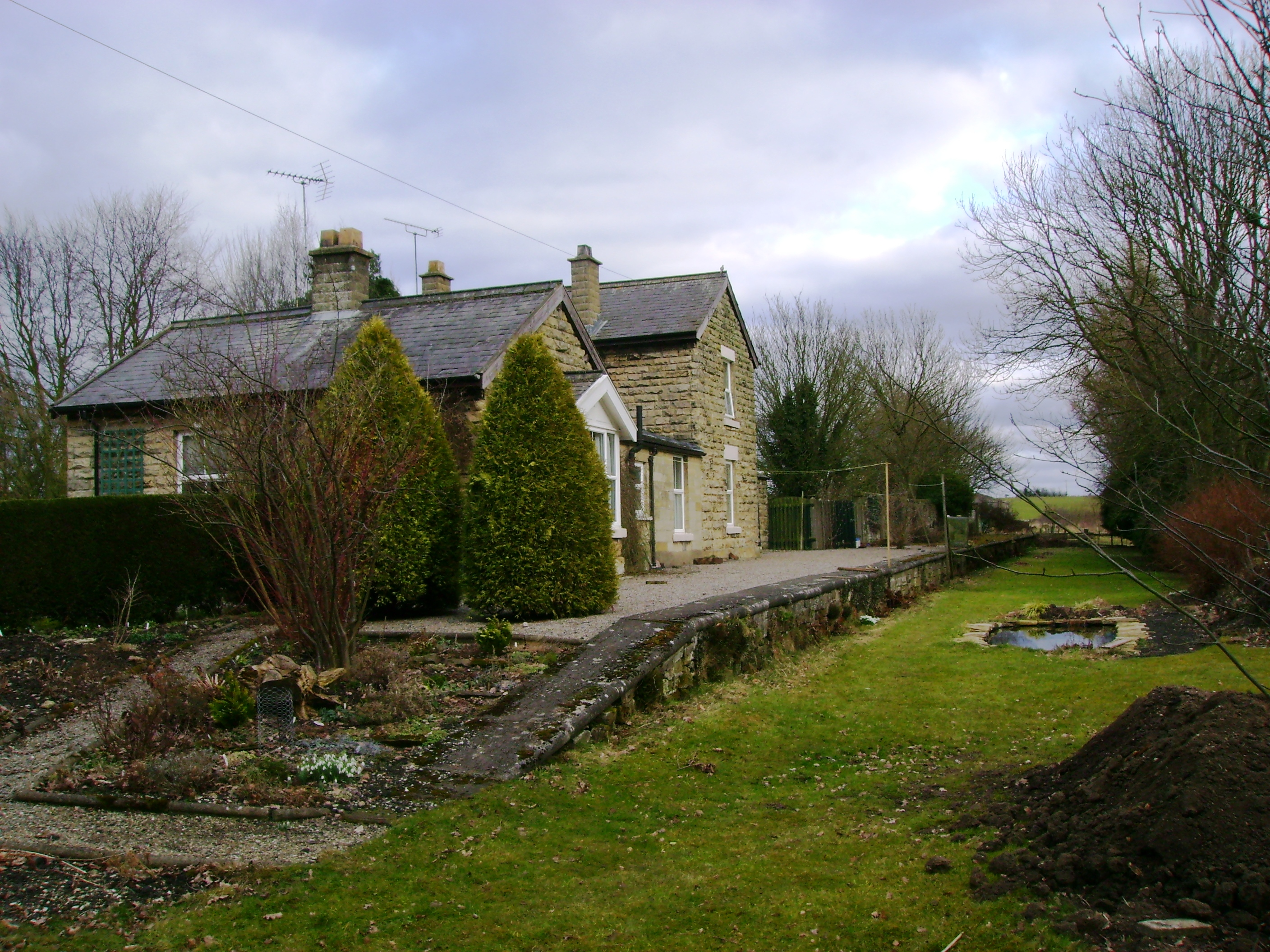 Sinnington Station On the long dismantled Helmsley-Pickering line